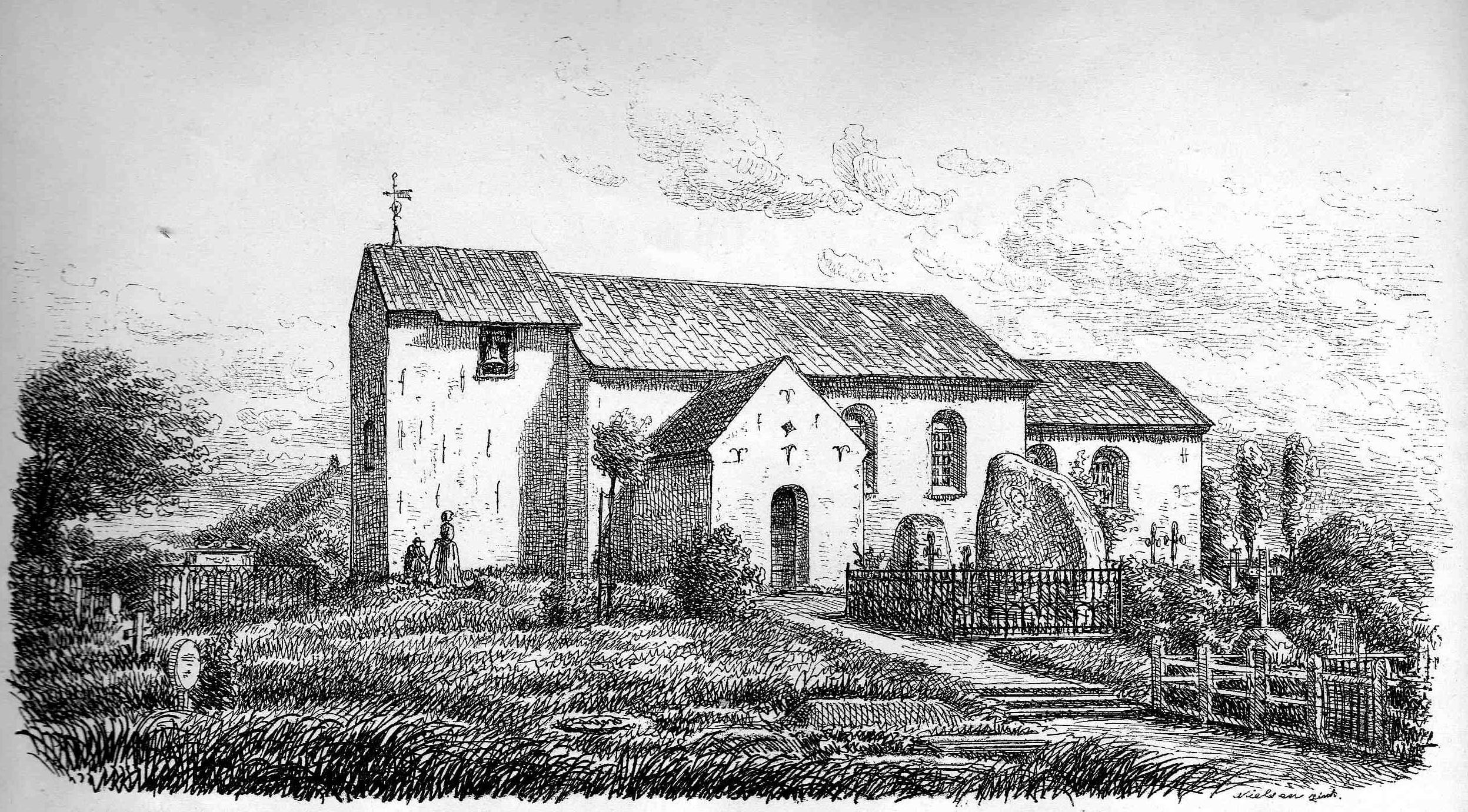 Scanned by myself from a copy of the old book in 2007. The book was graciously lent to me by Det Kongelige Garnisonsbibliotek.